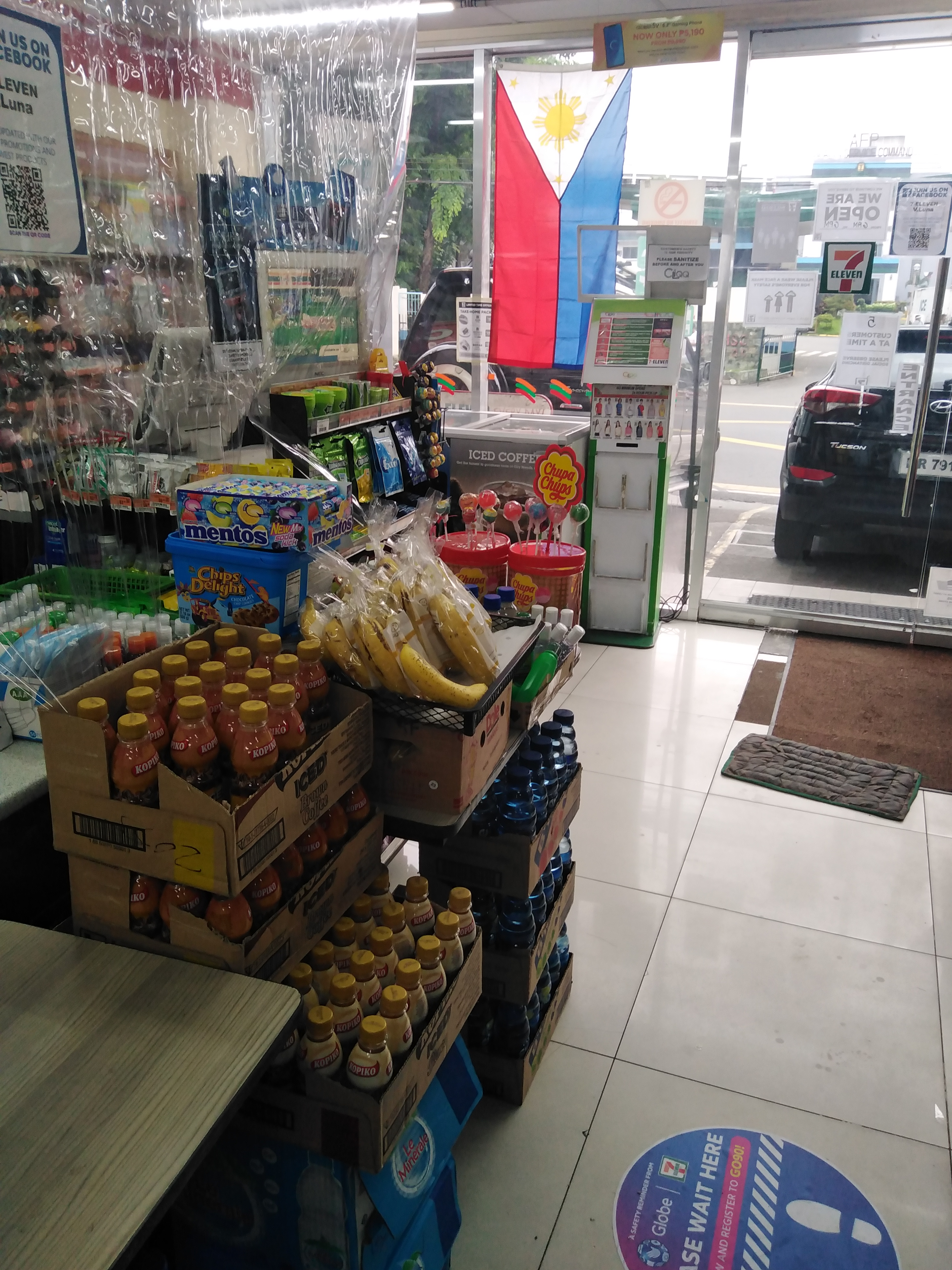 Counter setup of a 7-Eleven outlet store in Quezon City, Philippines amidst the COVID-19 pandemic.